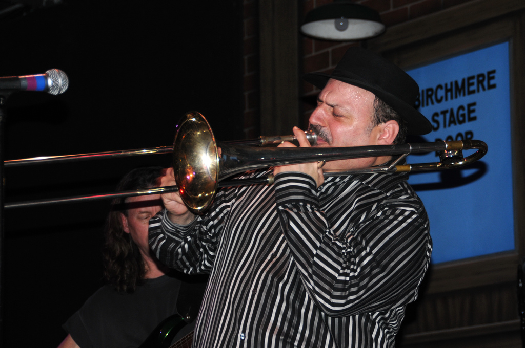 LaBamba from Southside Johnny and the Asbury Jukes in concert at the Birchmere in VA on 12/26/07; Photo by Jerry Frishman